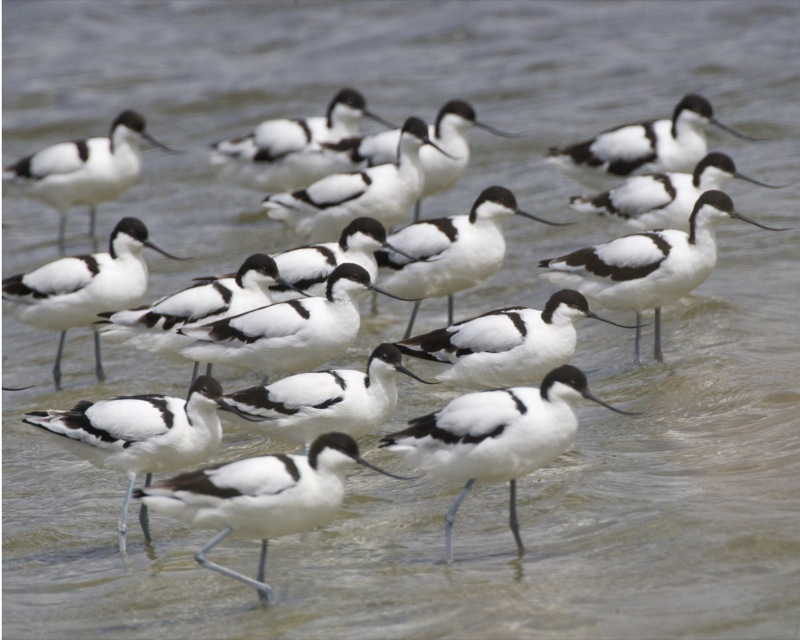 Pied Avocet Recurvirostra avosetta 7th, October 2009 Strandfontein, Capetown, South Africa Distribution: Avibase - The World Bird Database